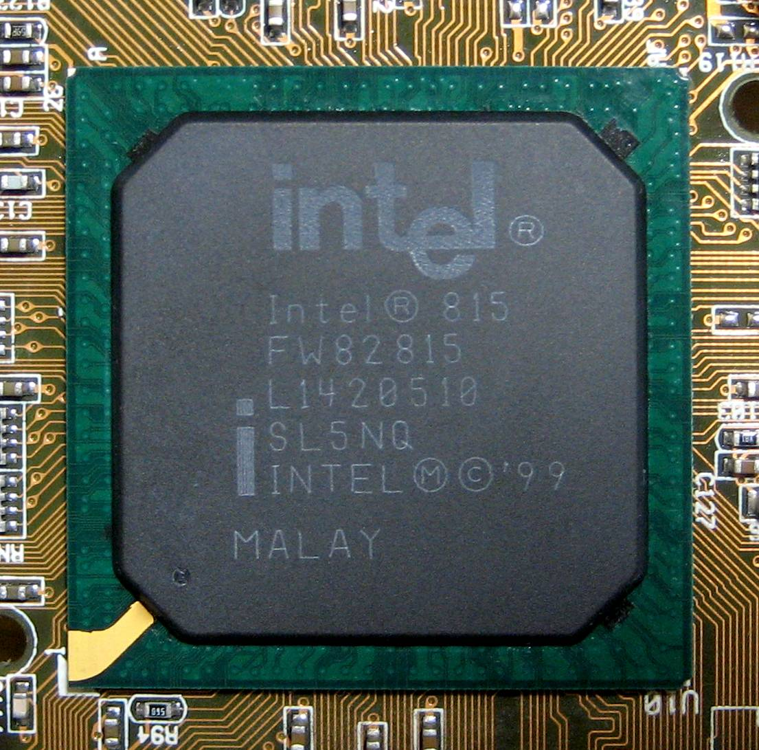 82815 is Intel's north bridge chip.